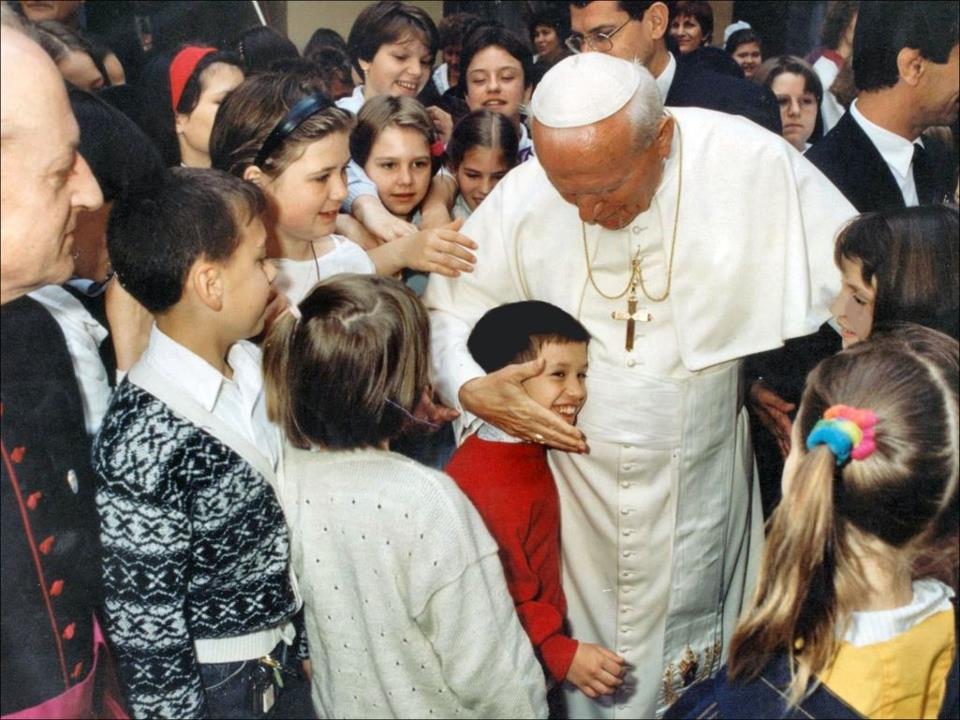 Pope John Paul II., visiting Slovenia, gathering with kids in episcopal palace by the capitals cathedral, talking with children in their own local national language...